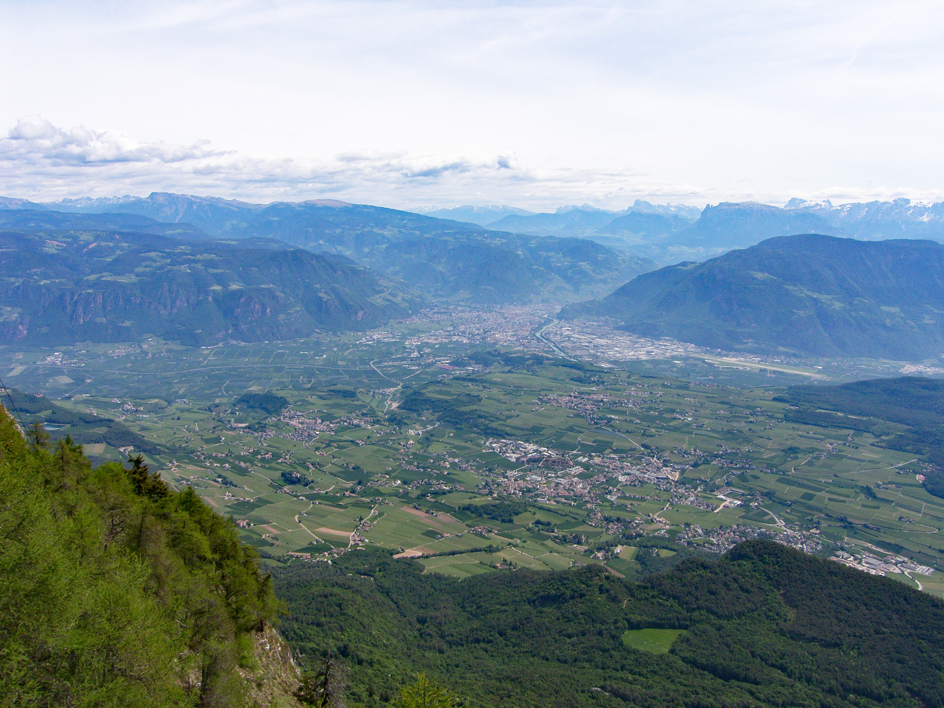 Bozen (it: Bolzano), South Tyrol, Italy, view from mount Penegal